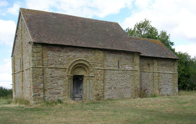 Heath Chapel, near Bouldon, Shropshire. The 12th-century Norman chapel is all that remains above ground of a deserted medieval village, the earthworks of which surround it on all sides.